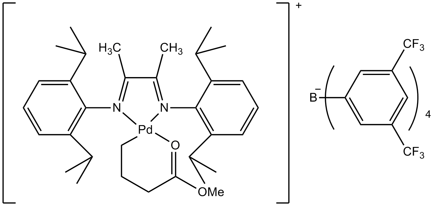 Pd catalyst used to promote chain walking polymerization reactions.